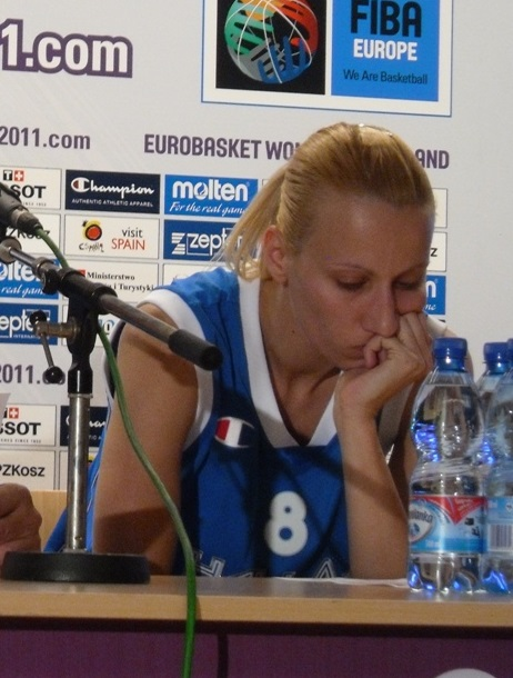 The Greek women's national basketball team player, Styliani Kaltsidou, participating in the FIBA EuroBasket Women 2011 contest.